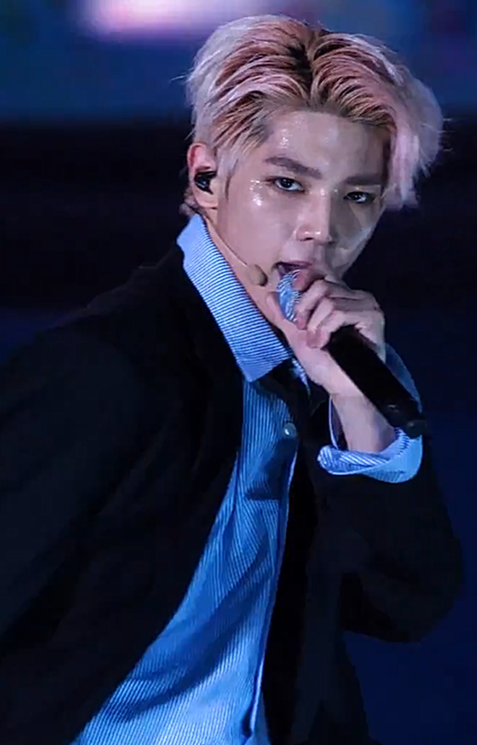 Lee Tae-yong performing "Good Thing" at Lotte Duty Free Family Festival on September 15, 2017.